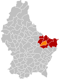 Own edit of Kanton EchternachLocatie.png